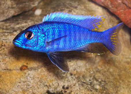 Sciaenochromis fryeri Category:Cichlid images